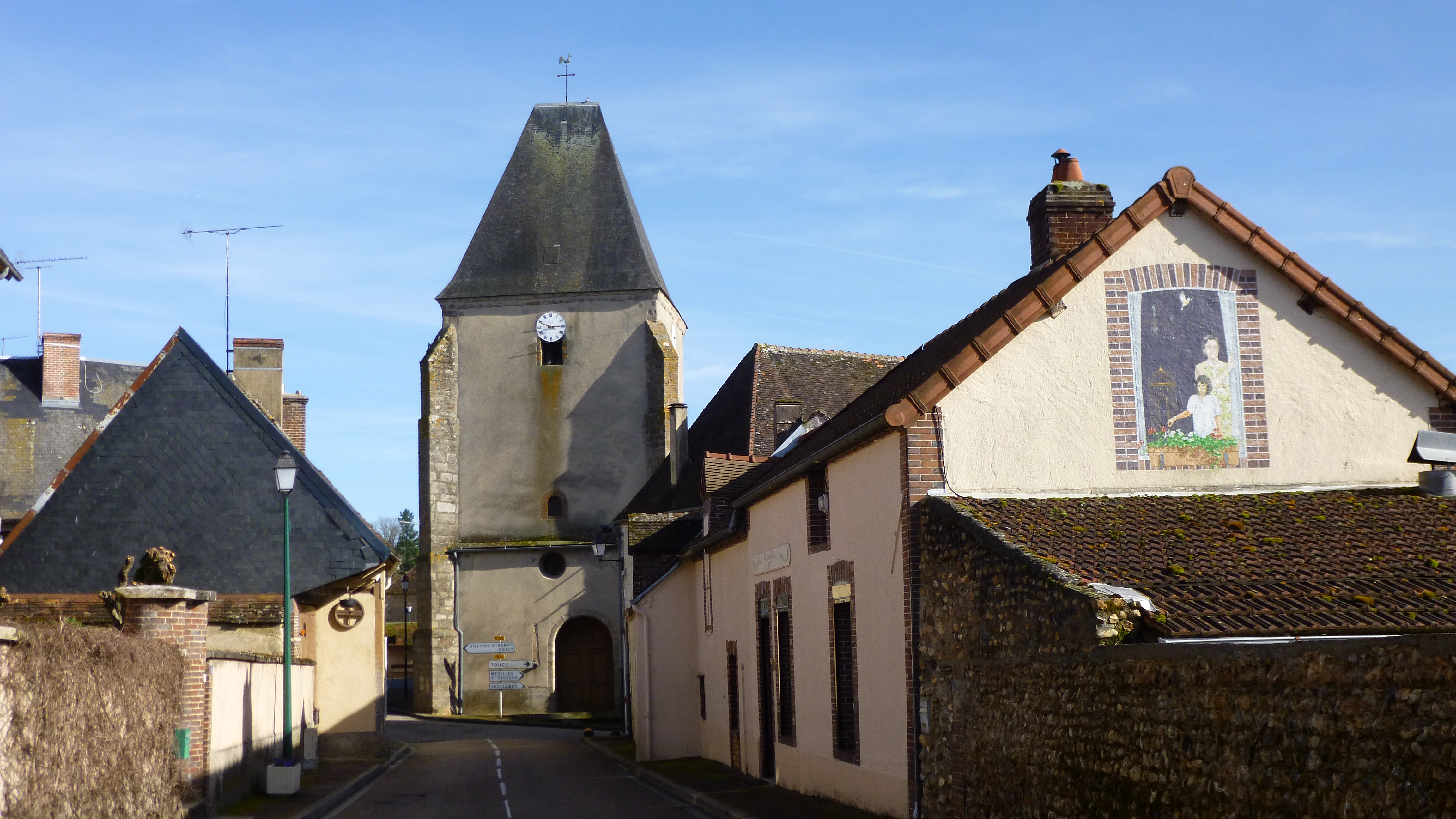 Tannerre-en-Puisaye, Yonne, Burgundy, France. Coming from Champignelles on the D 7, in rue Carreau with the church in perspective. At n° 5 of that street, a trompe-l'oeil painting on a house end wall, representing a woman and a child loking through a window. The same house has another trompe-l'oeil painting on its façade, representing a woman leaning on a window-sill.